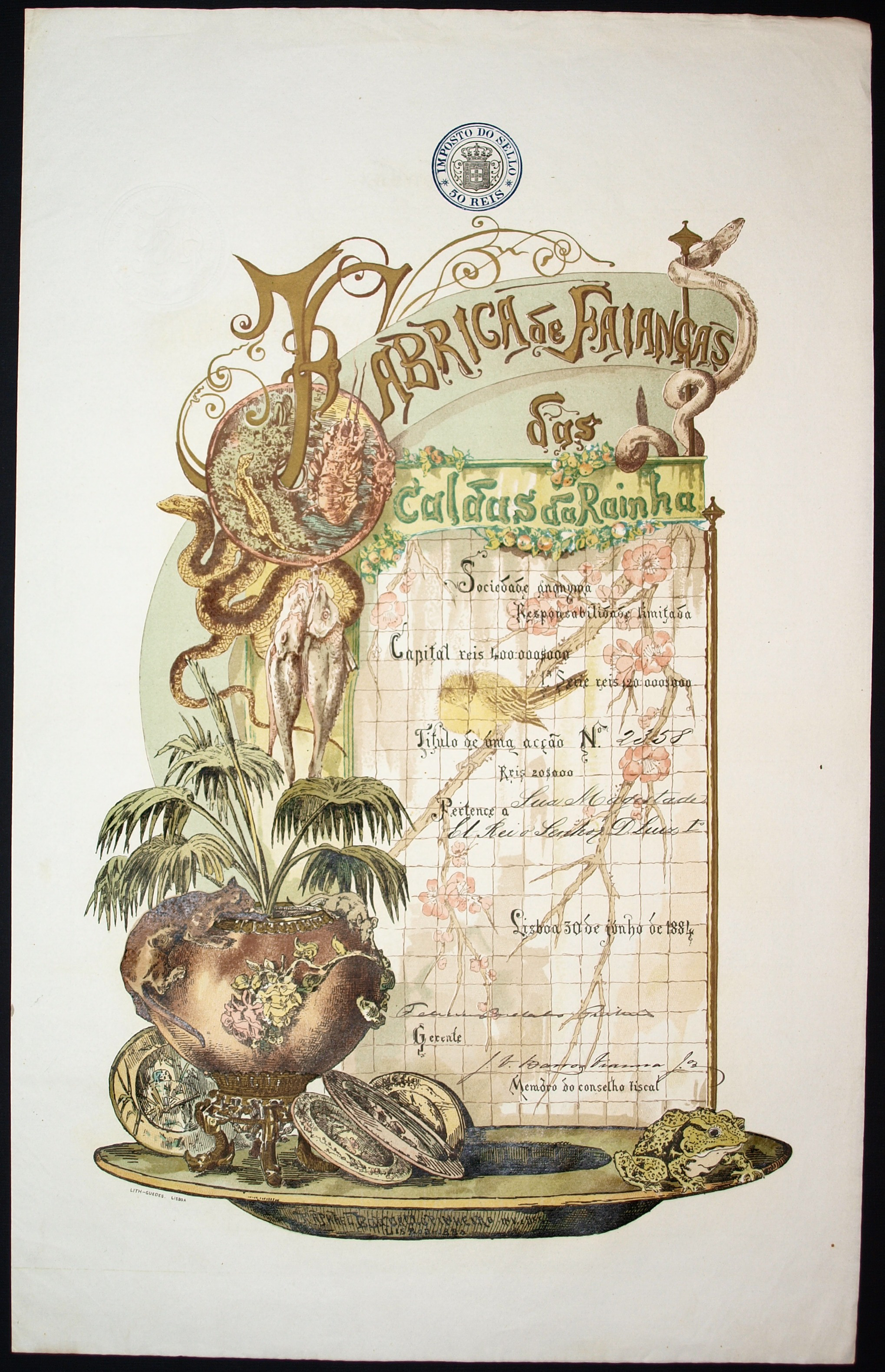 Share of the Fábrica de Faianças das Caldas da Rainha vom 30. Juni 1884; Probably the most magnificent stock certificate! Caldas da Rainha (= thermal springs of the queen) was founded already in the 15th century by the Portuguese queen Dona Lenor. Under the leadership of her husband Johann II Portugal became the leading sea and colonial power of Western Europe. Caldas da Rainha, the place where the porcelain and faience manufactory was built, is a therapeutic bath and was the favoured summer residence of the Portuguese monarchs. The Fabrica de Faiancas was founded in the year 1884 and still exists nowadays and is a great object of interest. The share certificate was designed by Raphael Bordalho-Pinheiro (1847-1905) and shows many of his favoured animal motifs. The execution of the artwork is very complex, because 11 colours were necessary for the print of the picture, whereas each single share certificate had to be printed manually.